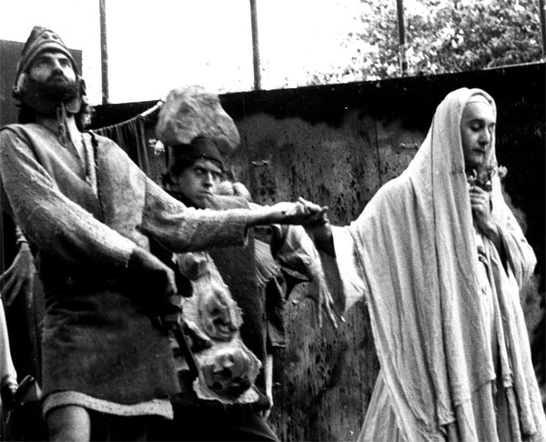 Riverside Shakespeare Company A Midsummer Night's Dream Mechanicals, with Stuart Rudin, Ronald Lew Harris and Jim Aucoin, 1978.